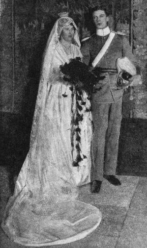 Wedding photography of count Nils Wachtmeister (1891-1959) and his wife, countess Märta, née De Geer af Leufsta (1896-1976)